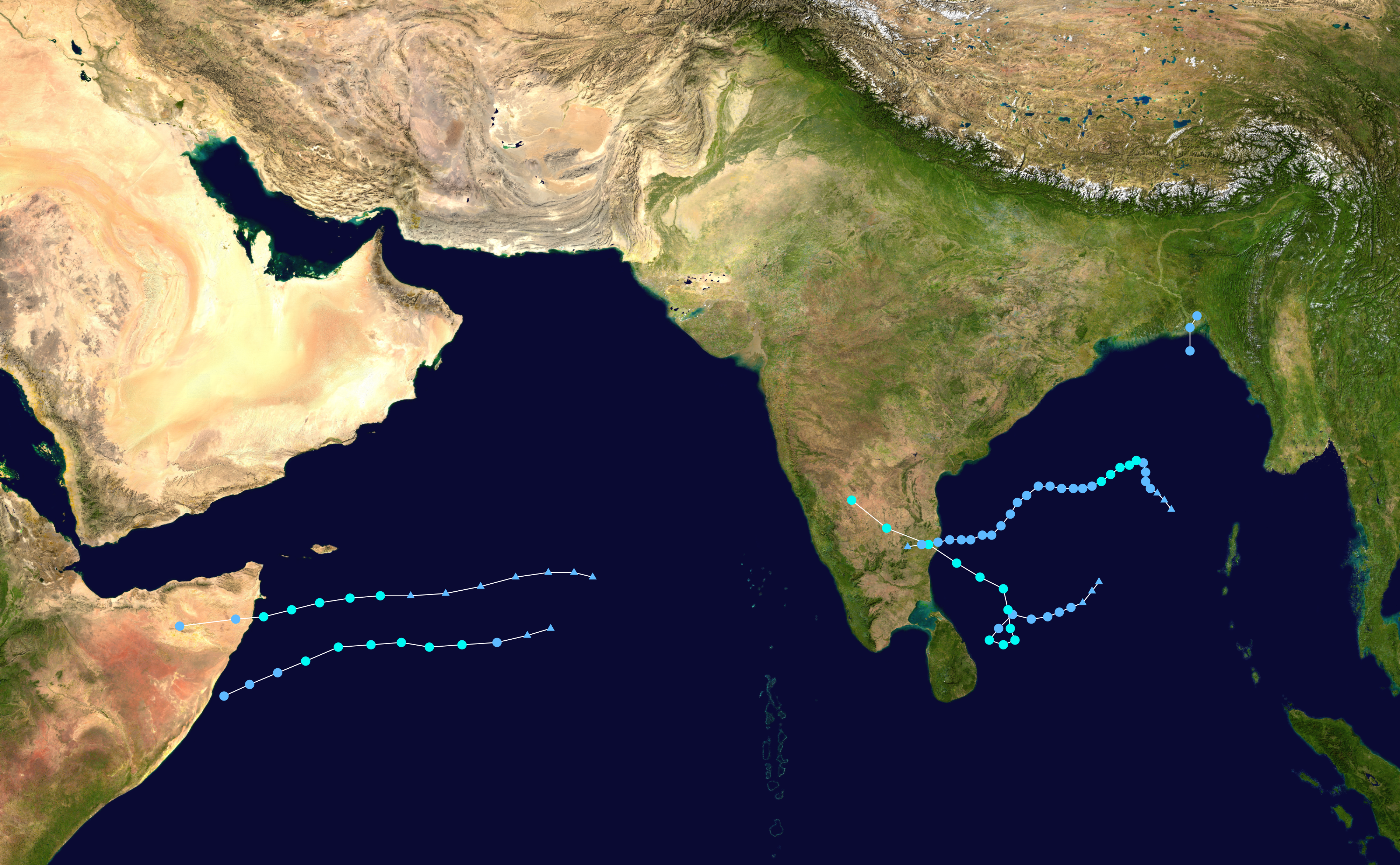 This map shows the tracks of all tropical cyclones in the 2012 North Indian Ocean cyclone season. The points show the location of each storm at 6-hour intervals. The colour represents the storm's maximum sustained wind speeds as classified in the Saffir-Simpson Hurricane Scale (see below), and the shape of the data points represent the type of the storm. Saffir–Simpson scale Tropical depression≤38 mph≤62 km/h Category 3111–129 mph178–208 km/h Tropical storm39–73 mph63–118 km/h Category 4130–156 mph209–251 km/h Category 174–95 mph119–153 km/h Category 5≥157 mph≥252 km/h Category 296–110 mph154–177 km/h Unknown Storm type Tropical cyclone Subtropical cyclone Extratropical cyclone / Remnant low / Tropical disturbance / Monsoon depression